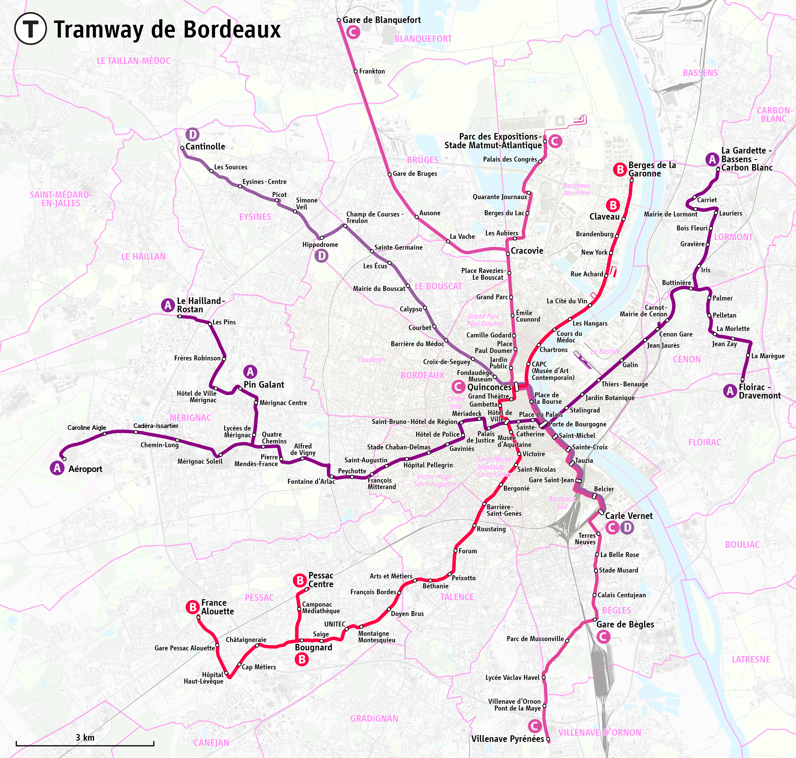 Map of the Bordeaux tramway system